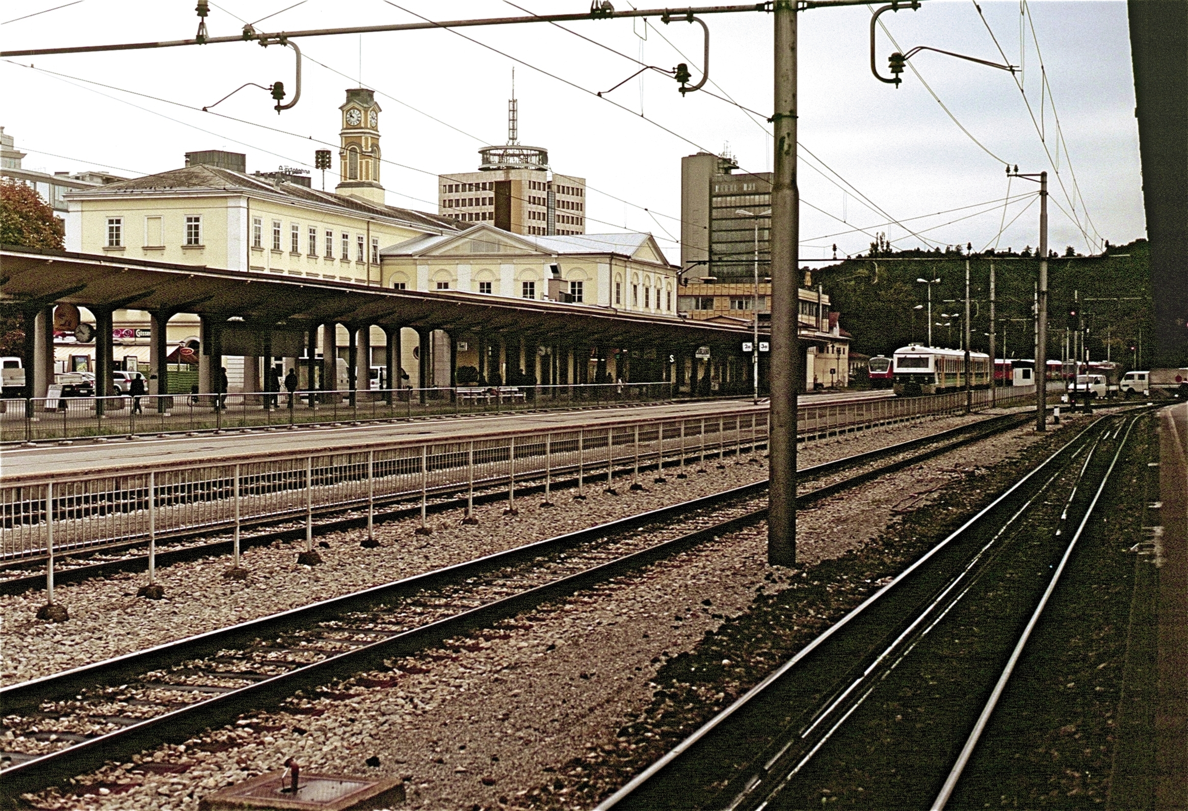 Ljubljana main station